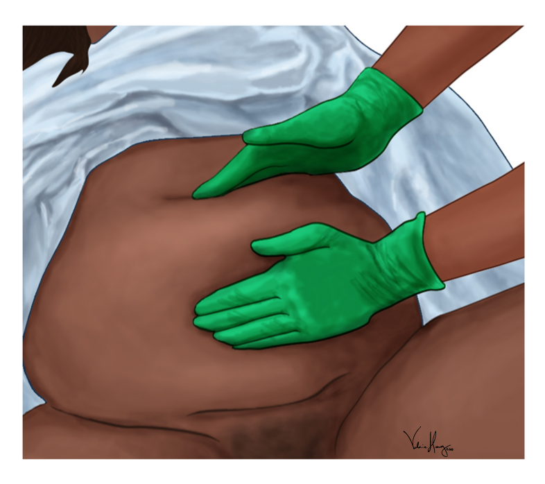 Image depicting the performance of a uterine massage